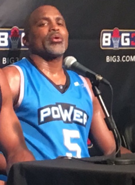 Cuttino mobley discussing the big3